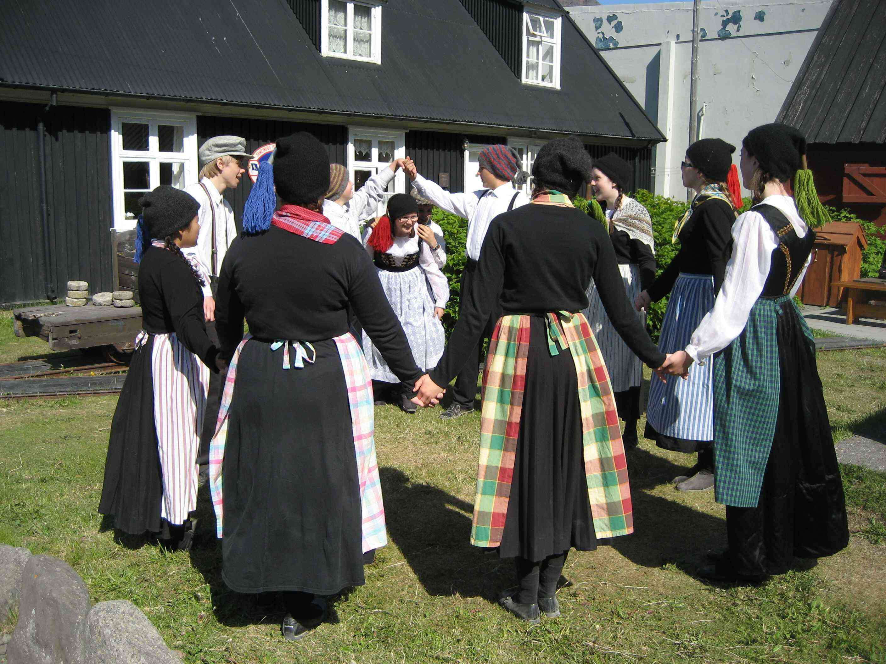 Dancers at the Westfjords Folk Museum in Isafjordur, Iceland.